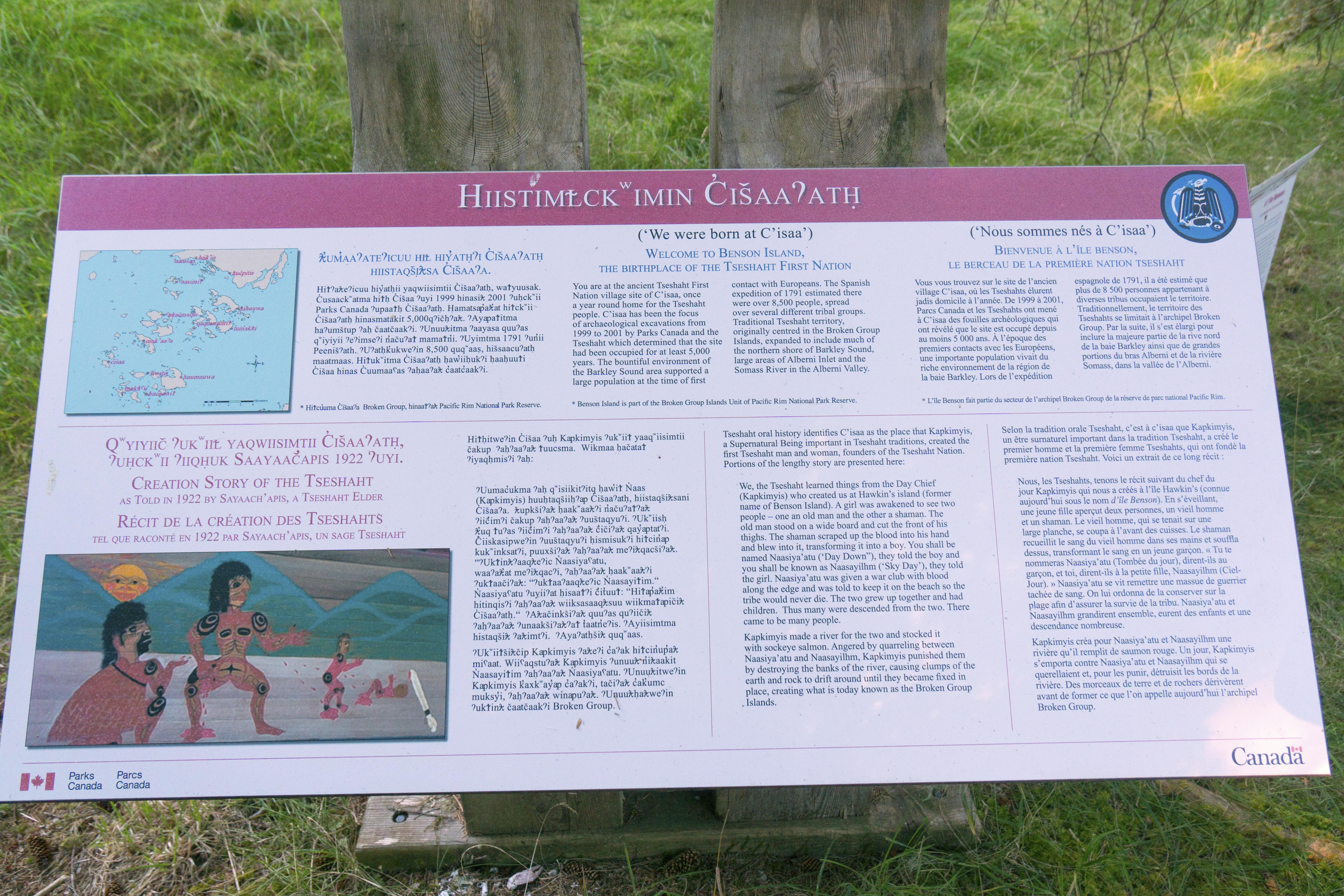 Interpretive sign describing a Tseshaht First Nations cultural site on Benson Island, British Columbia, Canada.